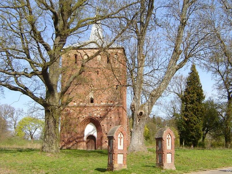 Church in Cieszyn, West Pomeranian Voivodeship